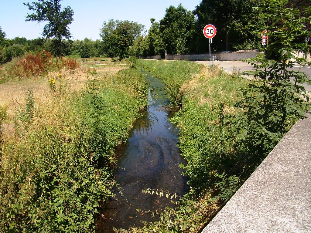 Boëlle River in Champlan